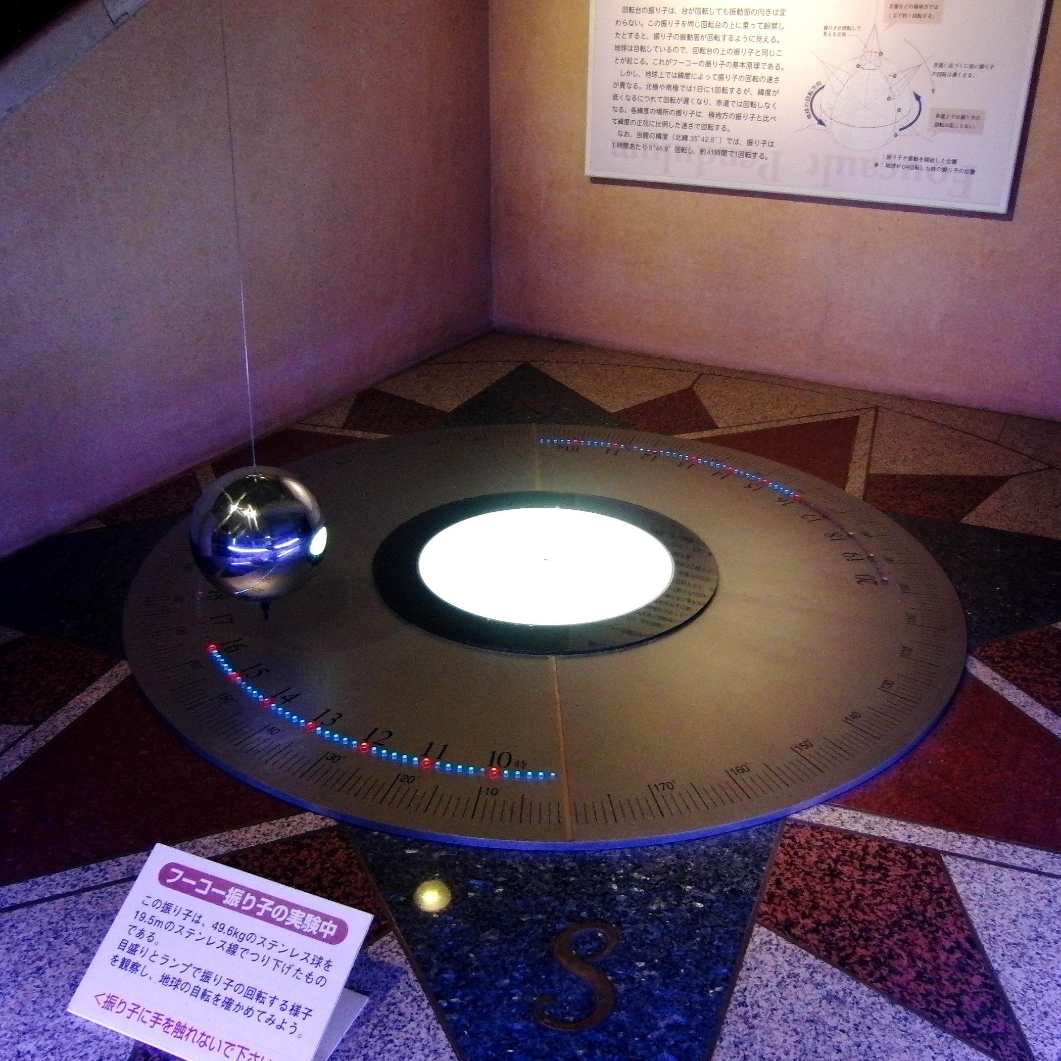 Foucault pendulum. Exhibit in the National Museum of Nature and Science, Tokyo, Japan.